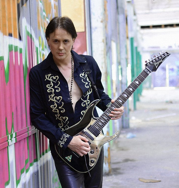 Bane Jelic in 2015